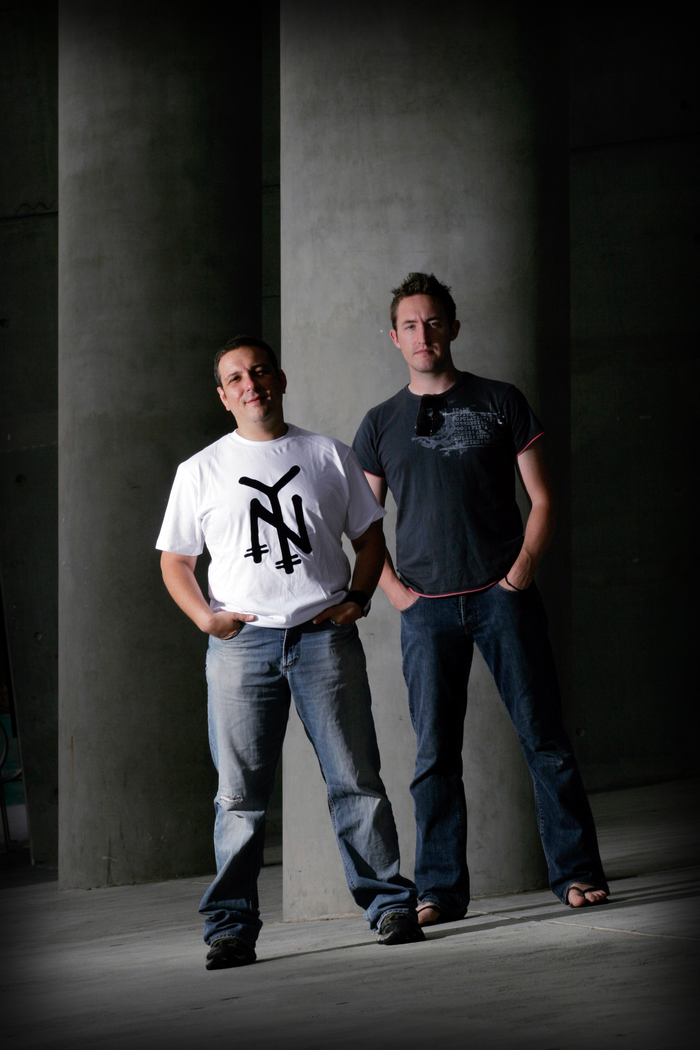 Photograph of electronic music duo Lo-Step (Phil K left and Luke Chable right)